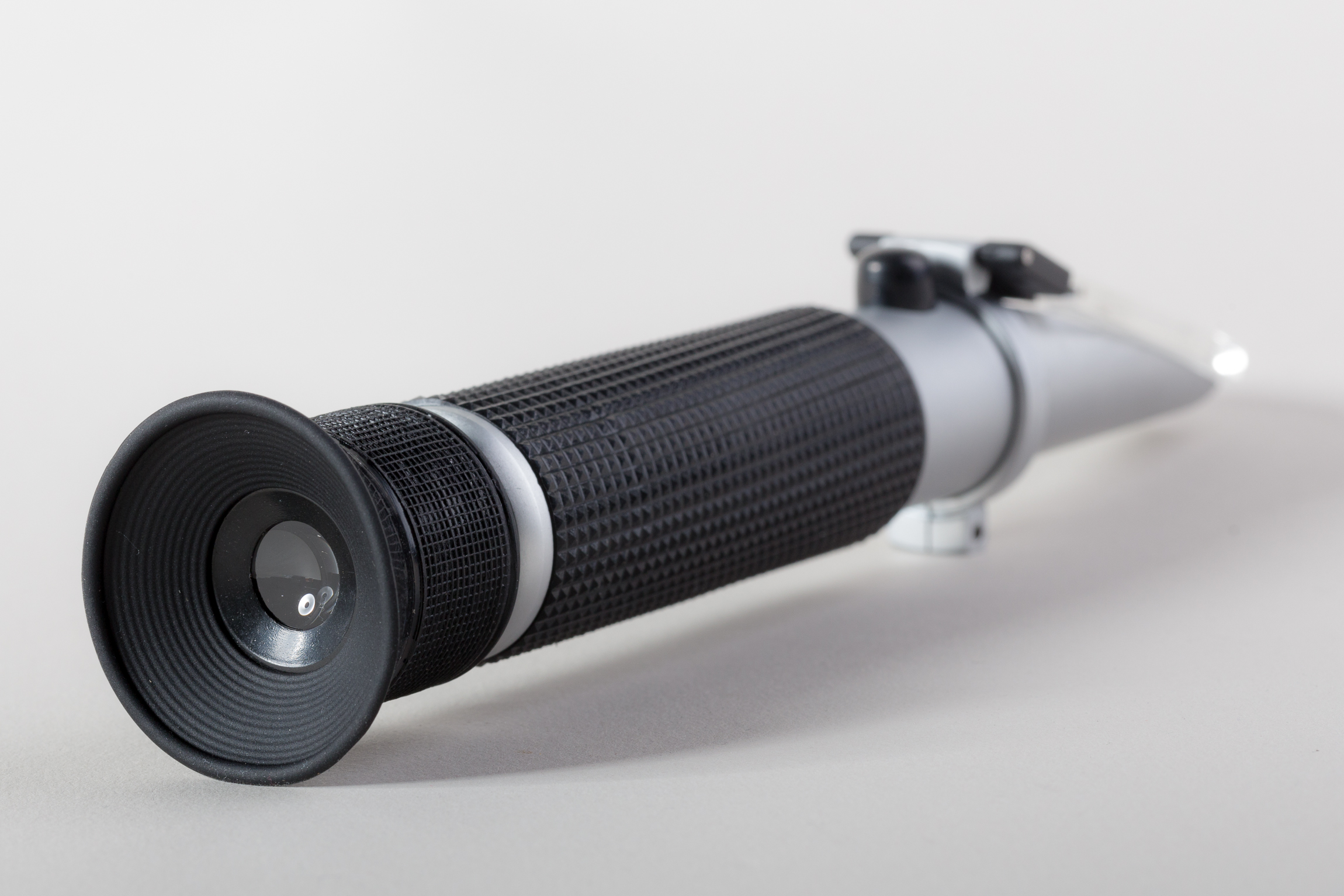 Portable Refractometer